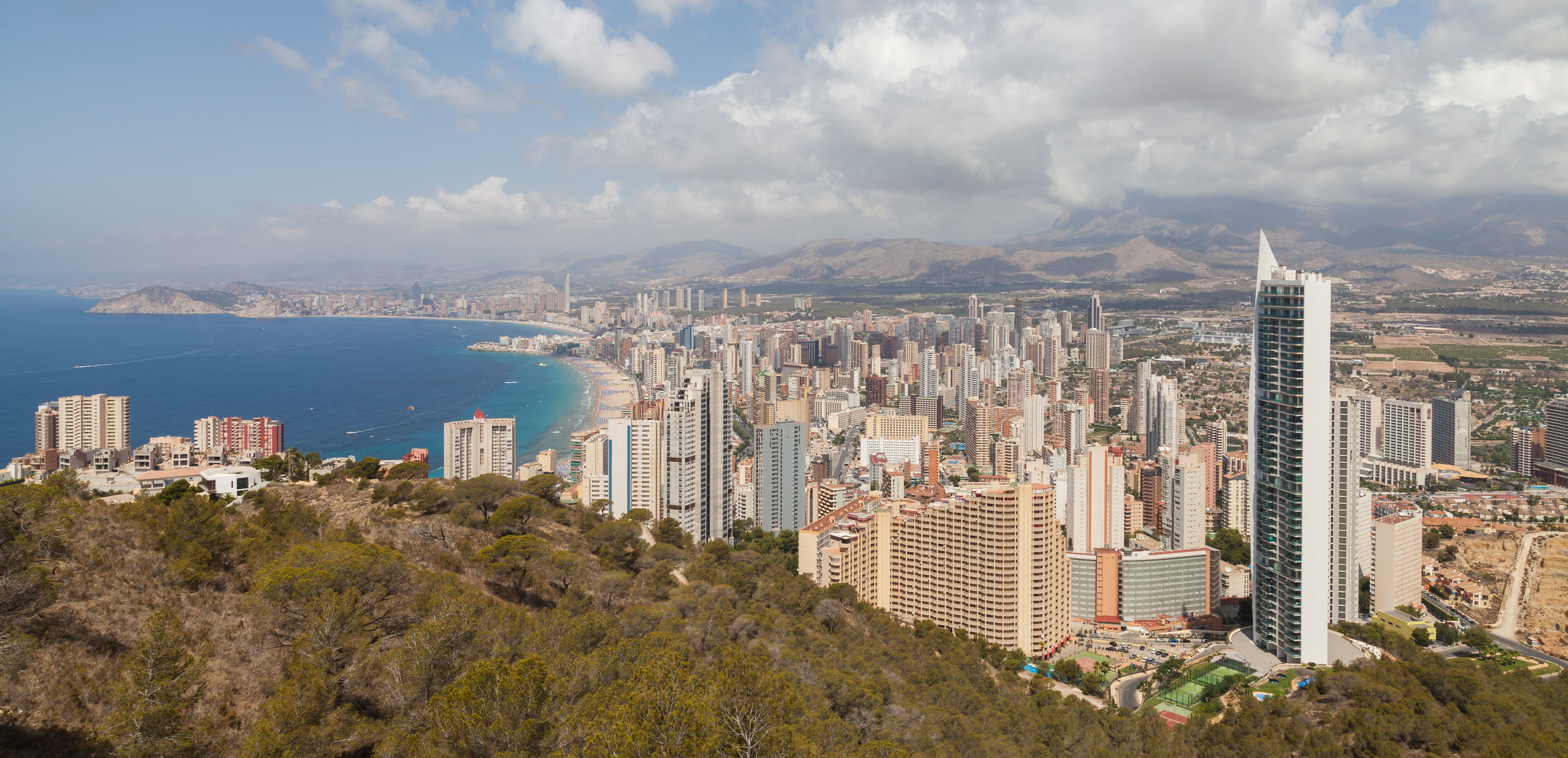 View of Benidorm, Spain